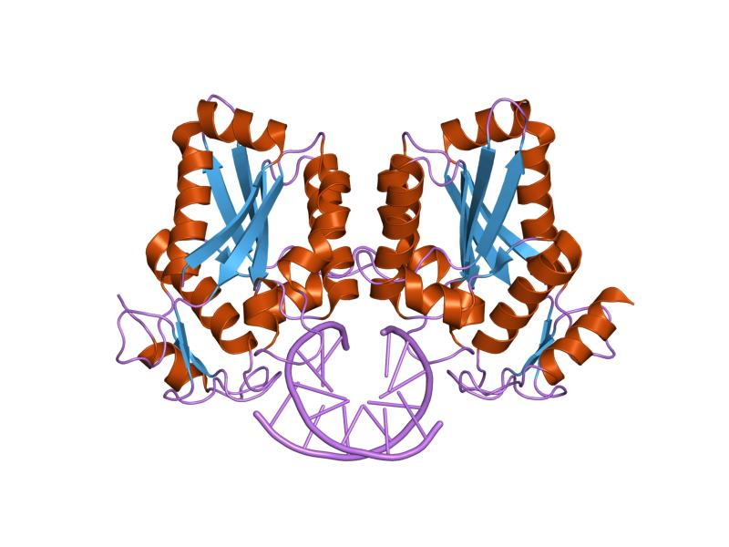 Cartoon representation of the molecular structure of protein registered with 1esg code.